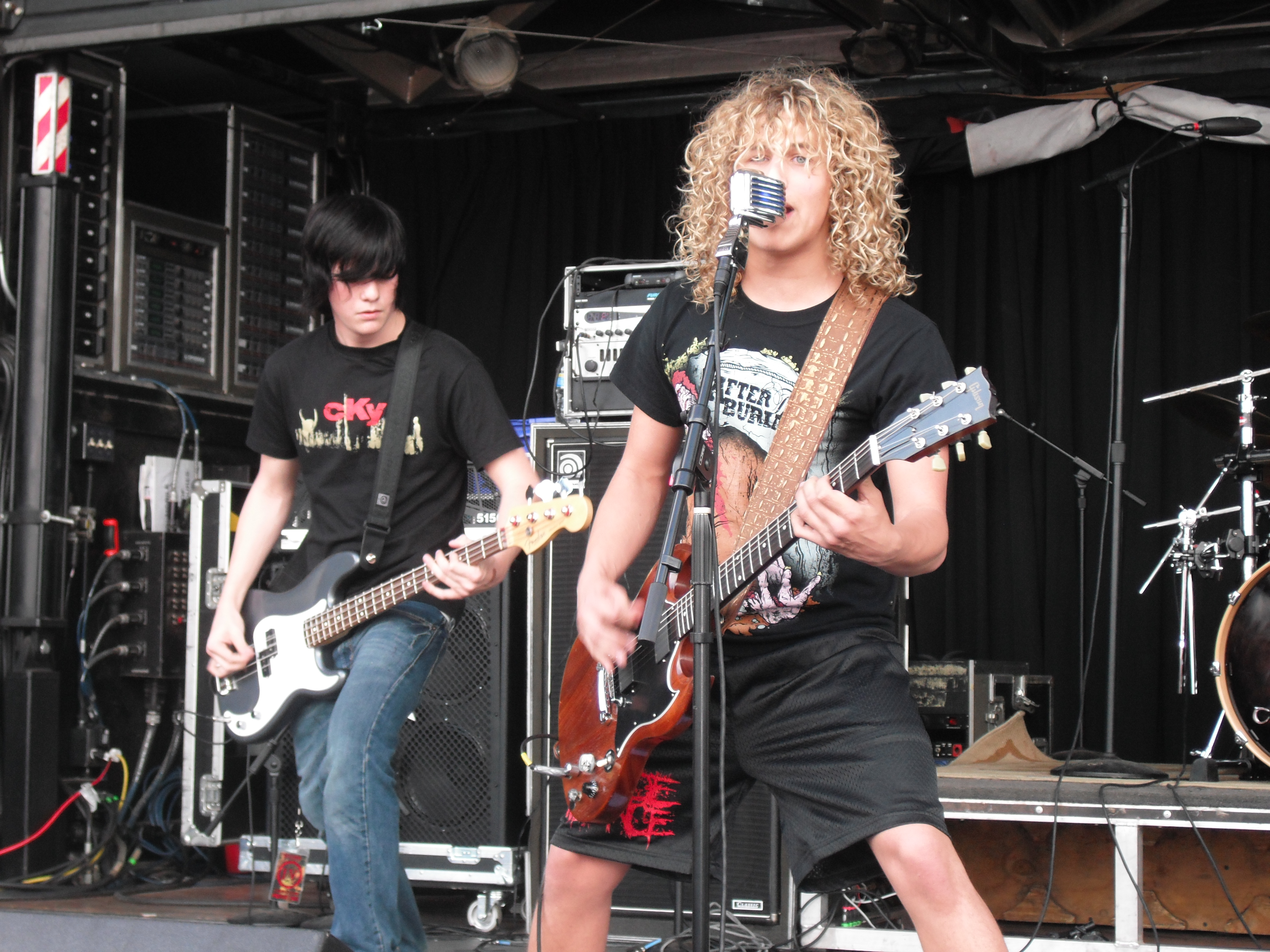 American hard rock band members Josh McDowell (left) and lead singer Forrest French from the group Crooked X. Photo By Ted Van Pelt